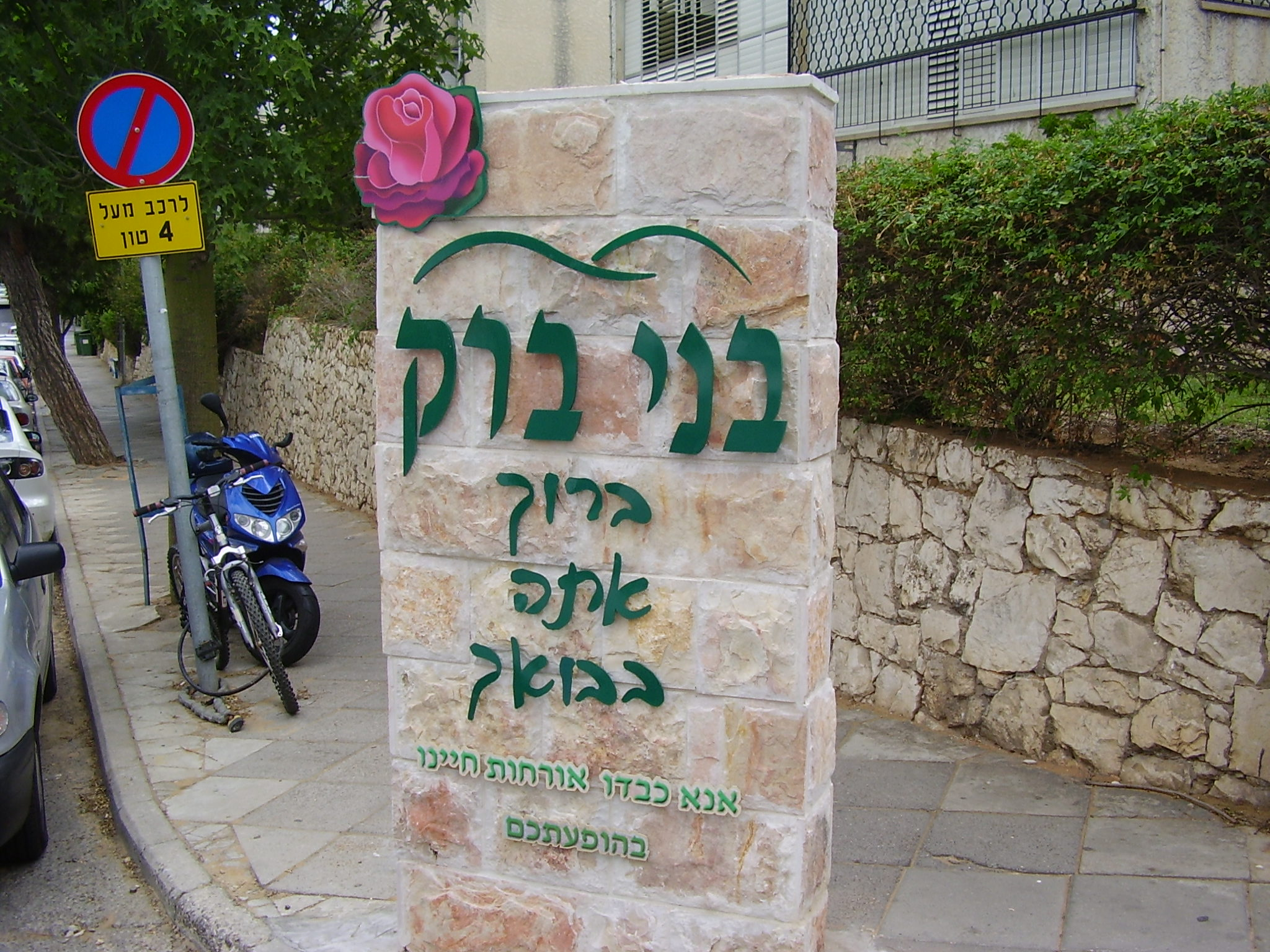 Welcome greeting in Bnei Brak